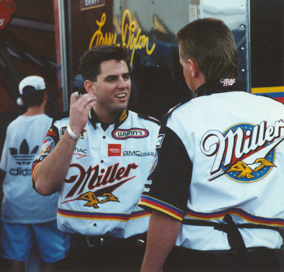 NHRA drag racer Larry Dixon talking with his crew memberLarry Dixon